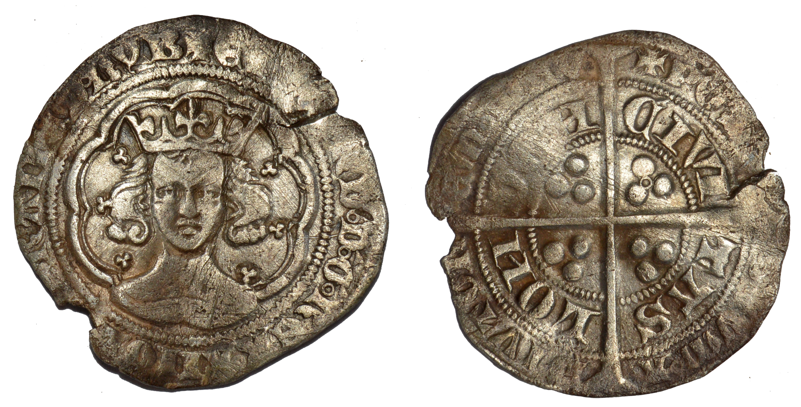 Silver groat of Edward III Pre-Treaty series G, inscription with annulet stops Date c1356-1361 Obverse: crowned bust facing forward EDWARD D G REX ANGL [Z] FRANC HYB. annular stops Reverse: long cross with three pellets in each angle, annular in top right angle. POSVI DEUM ADIVTOREM MEUM/CIVITAS LONDON. annular stops. Mint mark: cross 3